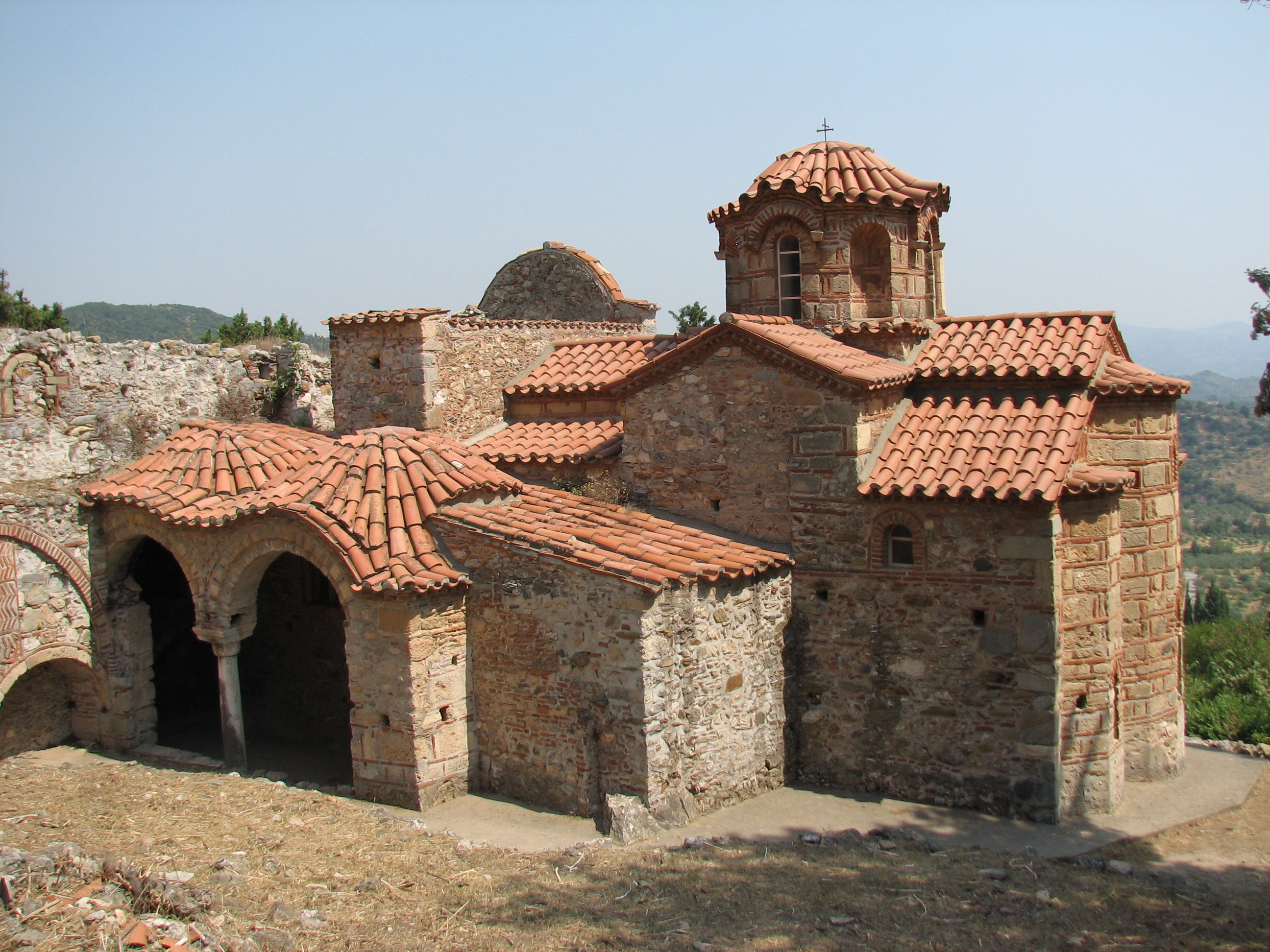 Byzantine city of Mystras,Evanghelistria church.